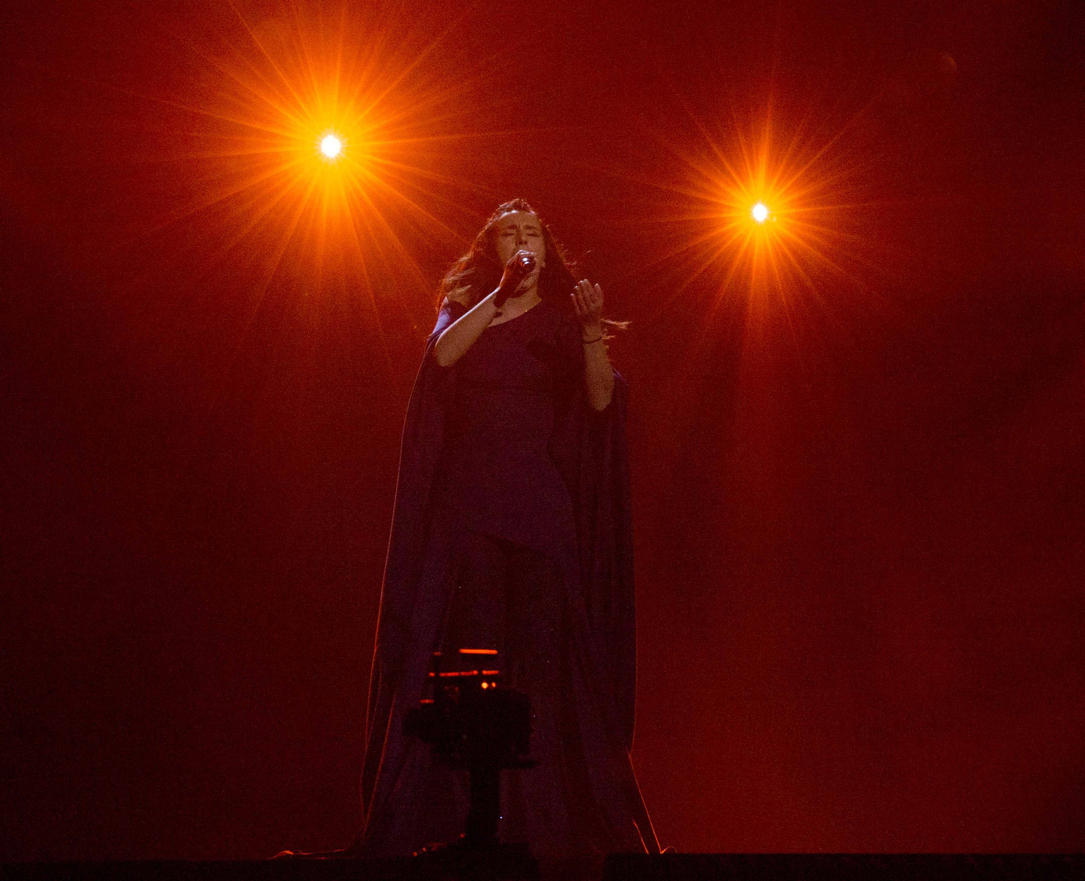 Jamala representing Ukraine with the song "1944" during a rehearsal before the second semi final of the Eurovision Song Contest 2016 in Stockholm. (Help translate this text)